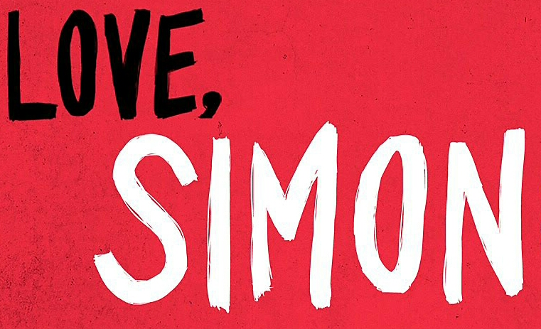 Logo film